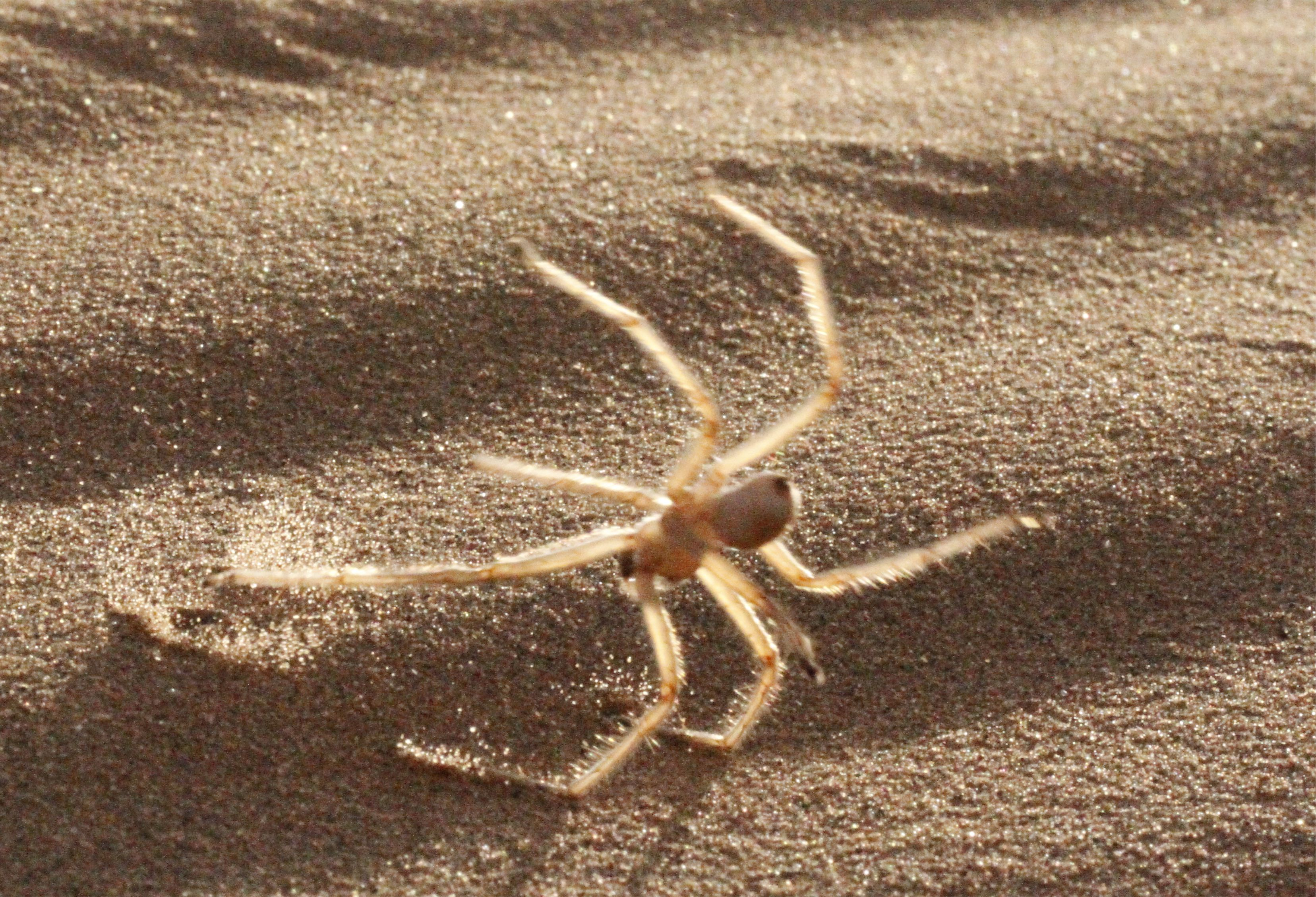 Cebrennus rechenbergi doing the flic-flac.